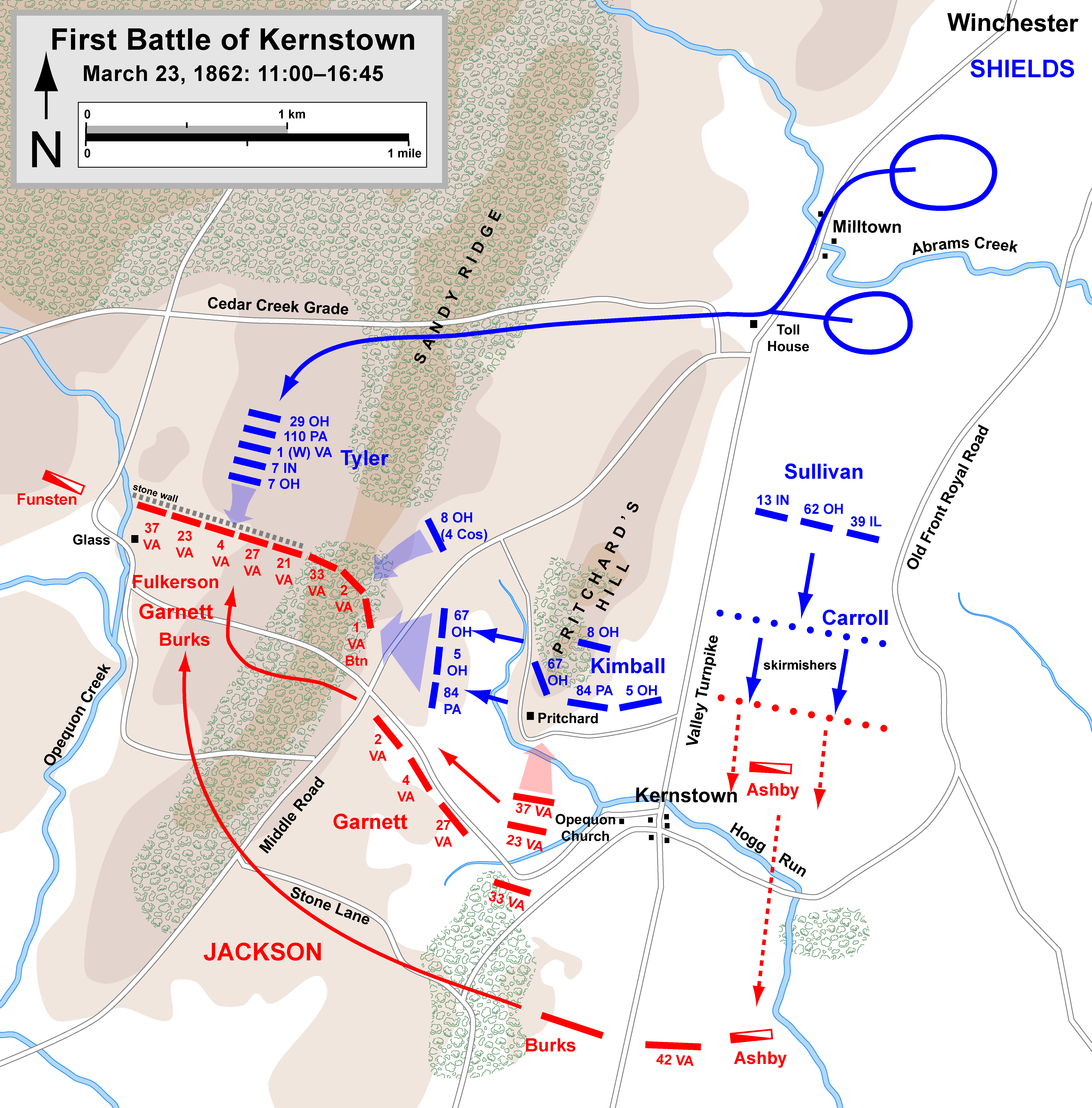 Map of the First Battle of Kernstown of the American Civil War.